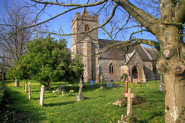 Bettiscombe - Church of St Stephen The church was entirely rebuilt in 1862 in the Perpendicular style by John Hicks of Dorchester.